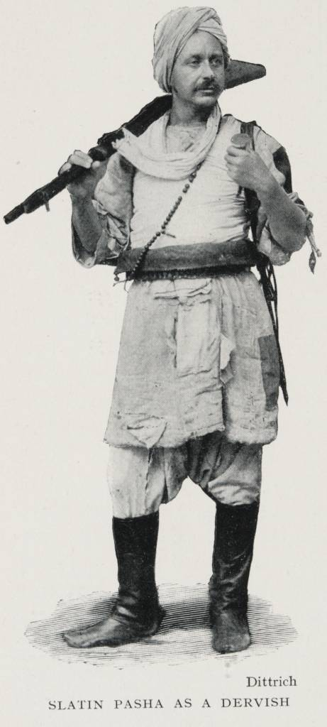 Slatin Pasha wearing a Dervish's clothes and holding a rifle.